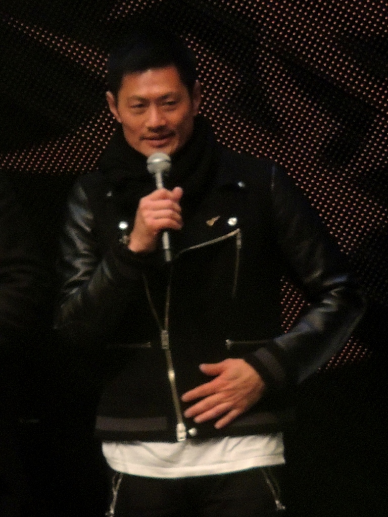 Kenny Wong @ Ultimate Song Chart Awards 2012